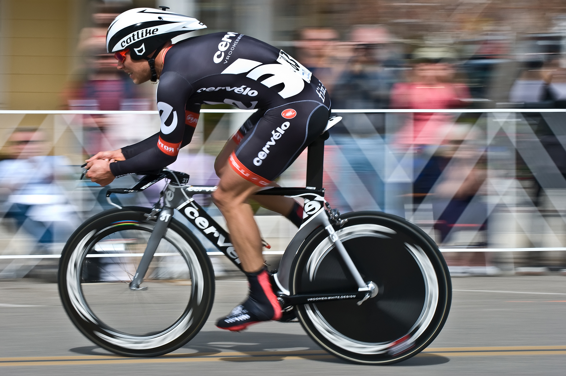 Thor Hushovd - 2009 Tour of California. As seen on course in Los Olivos during the stage 6 time trials starting in Solvang.